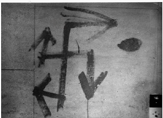 The symbol of the Churchill Club imitated the Nazi swastika, it was blue with arrows at the end of each line. The symbol stood for “Flame of Rebbelion to Kill Nazis!”